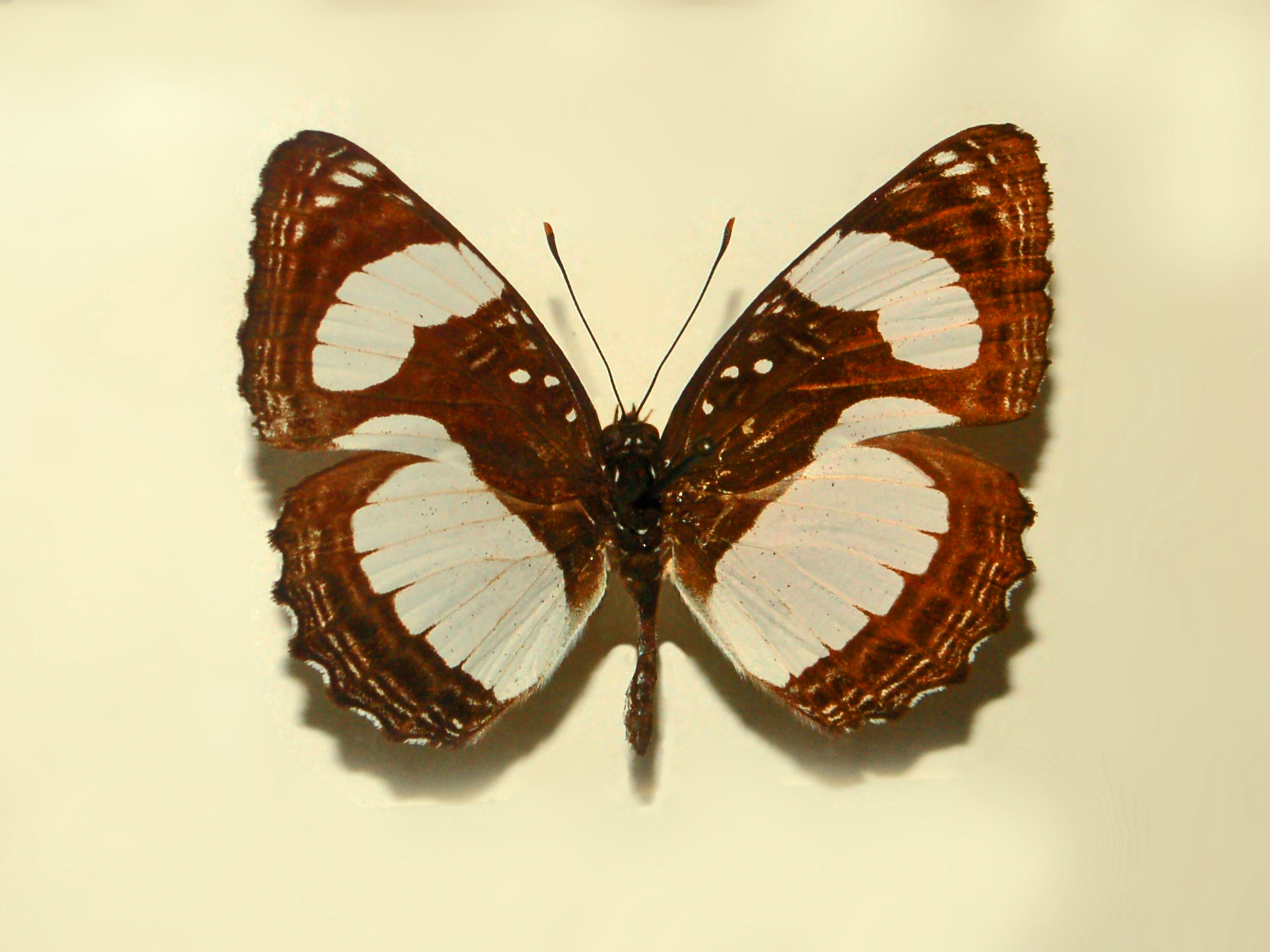 Neptis nicomedes from Eritrea. Mounted specimen